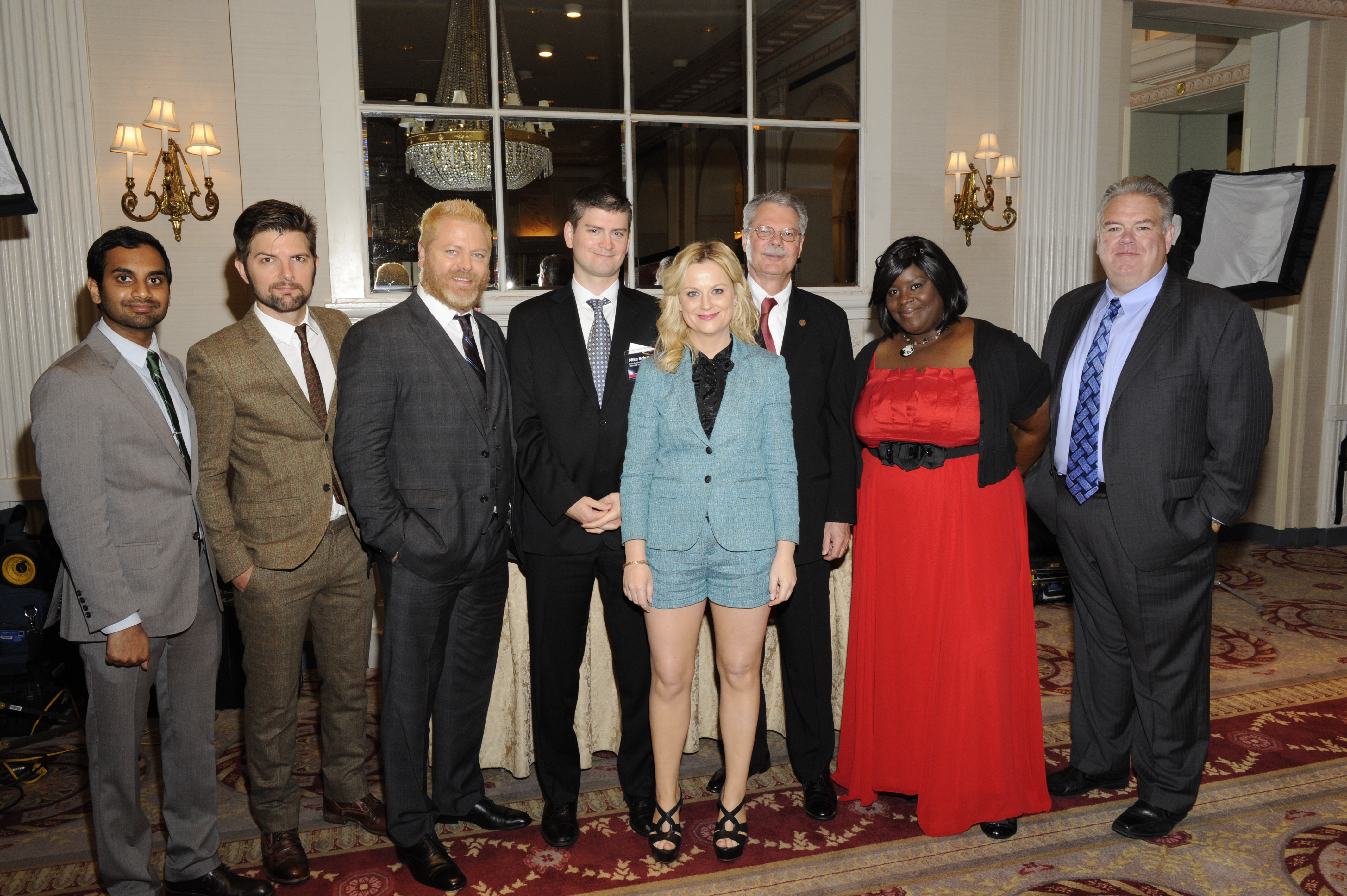 PHOTO CREDIT: ANDERS KRUSBERG / PEABODY AWARDS 71st Annual Peabody Awards Luncheon Waldorf=Astoria Hotel May 21, 2012